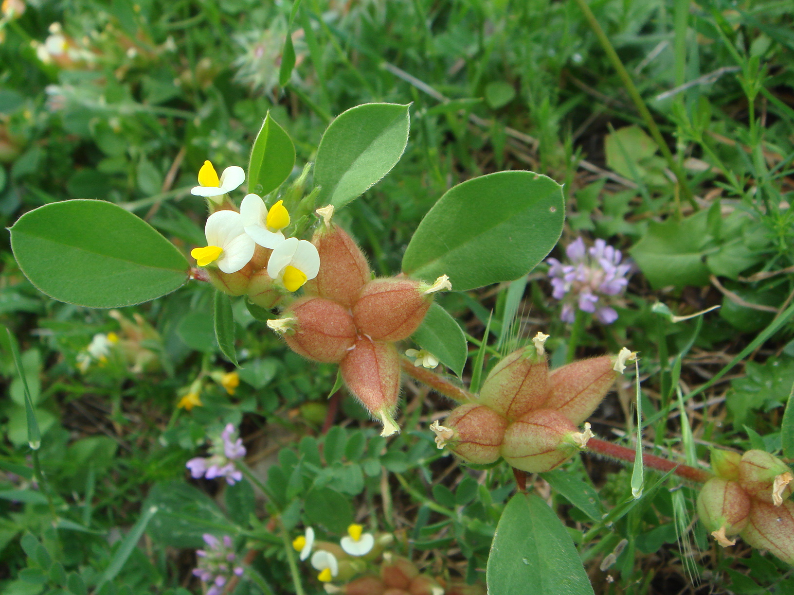 Anthyllis tetraphylla, Benaocaz (Cádiz), Spain